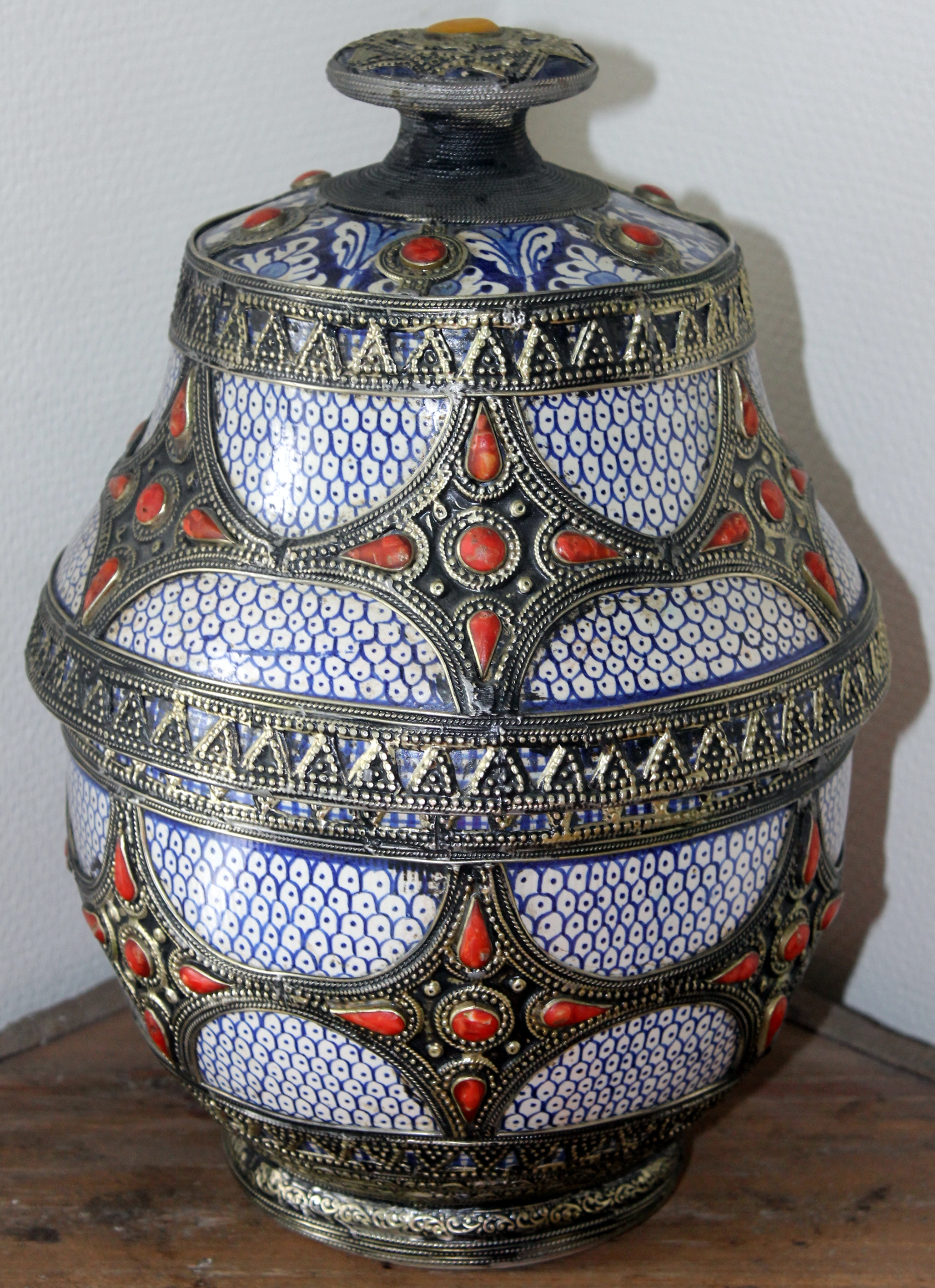 Moroccan ceramic vessel, lid is cloche-shaped ,openwork metal casing fitted tightly to outside of bowl with mounted coral beads, painted in underglaze blue, " Jobbana -Butter Pot " made Safi 19th - 20th. a property of my african art collection